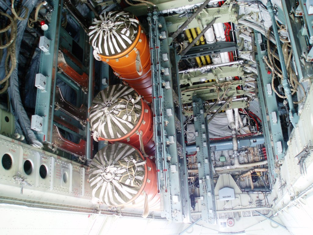 Спасательные кассеты в грузовом отсеке Ту-142М